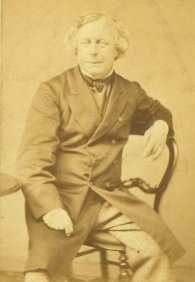 Samuel Rayner carte de visite